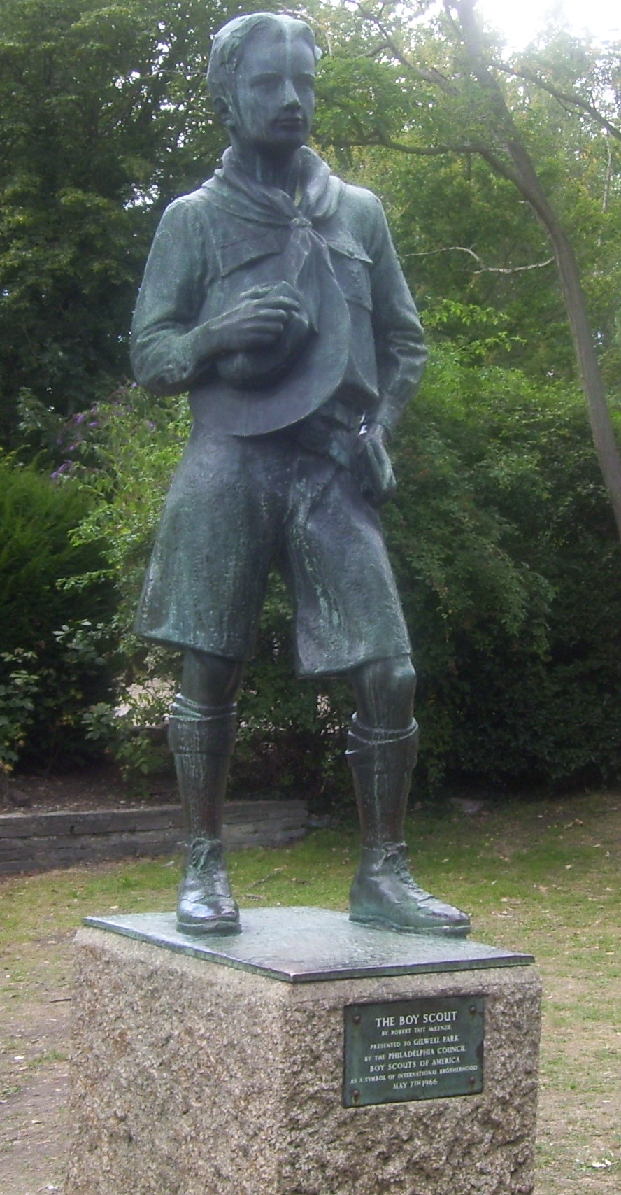 The R. Tait McKenzie statue at Gilwell Park during the 2007 World Jamboree